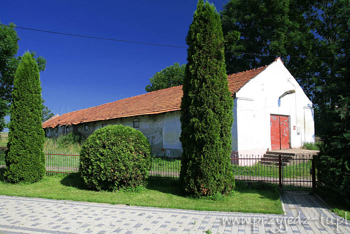 Zamojsce